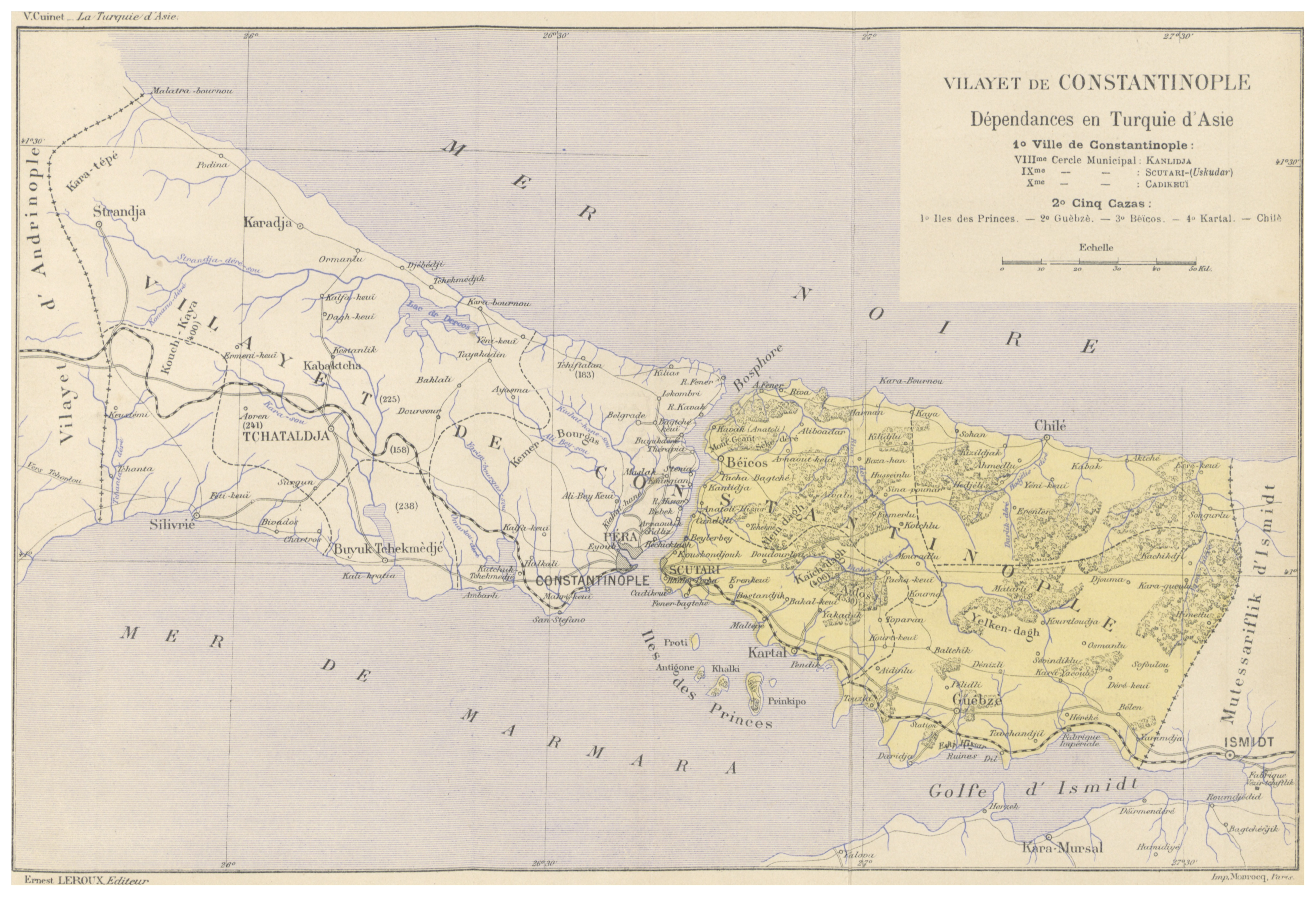 Map of the Vilayet of Constantinople